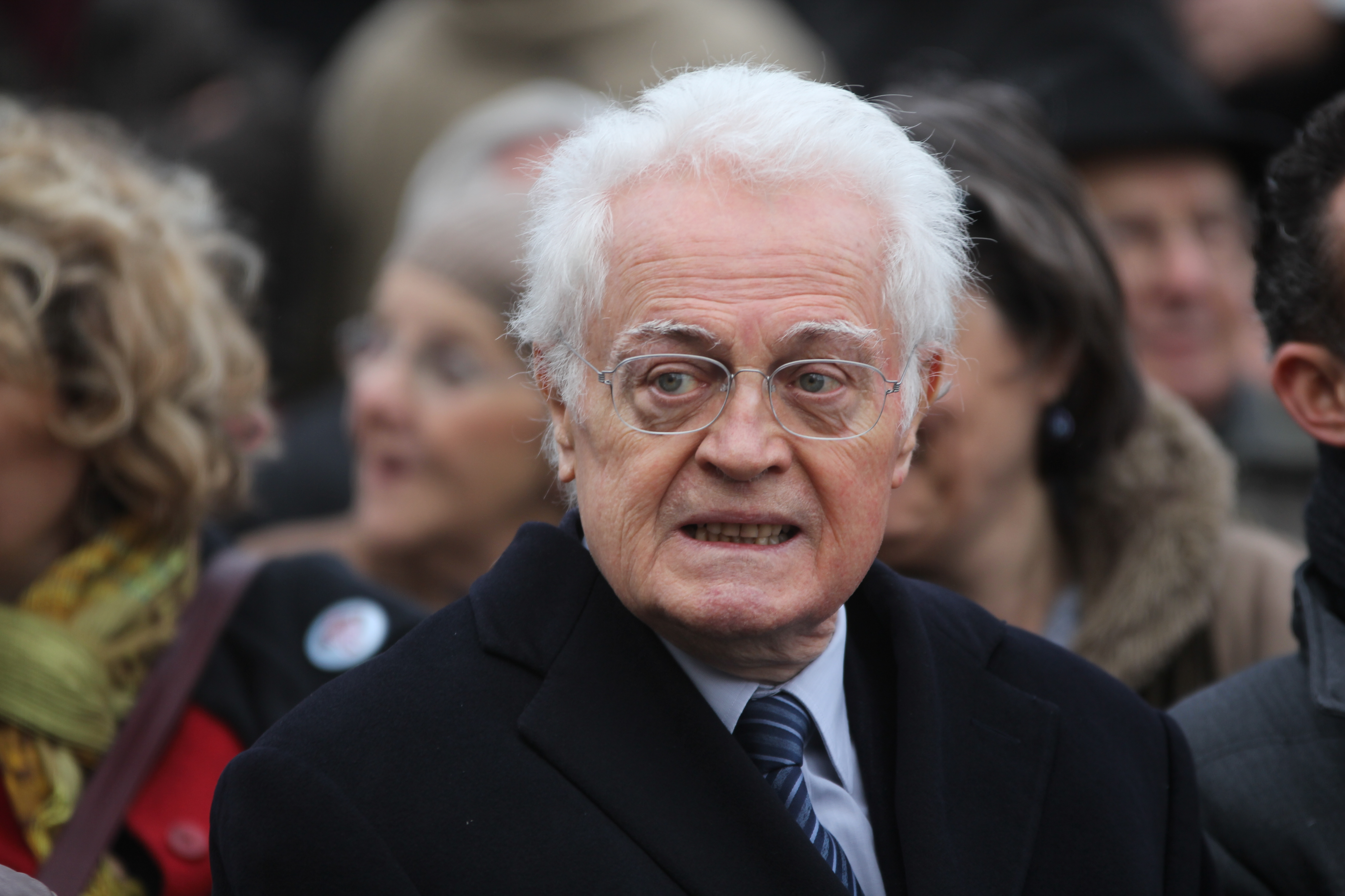 Lionel Jospin at the dedication ceremony of the Place Louis Baillot in the 18th arrondissement of Paris, 12 januari 2012